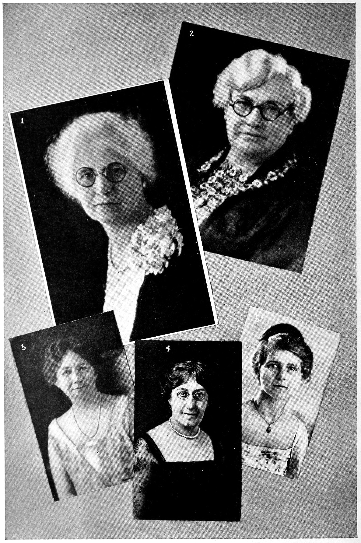 Women of the West; a series of biographical sketches of living eminent women in the eleven western states of the United States of America by Binheim, Max; Elvin, Charles A Publication date 1928 Topics Women Publisher Los Angeles, Calif., Publishers Press Collection uconn_libraries; americana Digitizing sponsor LYRASIS Members and Sloan Foundation Contributor University of Connecticut Libraries Language English 223 p. bports. c24 cm. Bookplateleaf 0003 Call number F595 .B59 Camera Canon EOS 5D Mark II Identifier womenofwestserie00binh Identifier-ark ark:/13960/t22c0sd8h Lccn 28021005 Ocr ABBYY FineReader 8.0 Page-progression lr Pages 284 Possible copyright status Copyright either not claimed or not renewed. Item is in the public domain. Ppi 500 Scandate 20130807152456 Scanner Scanningcenter boston Full catalog record MARCXML